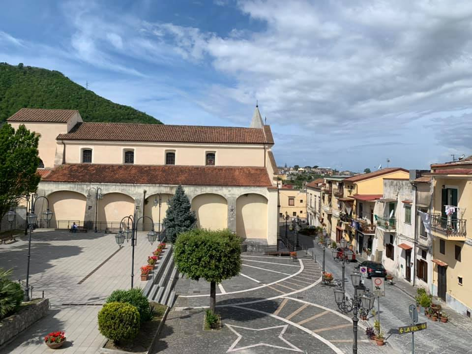 Foto Gianfranco Ferrajoli